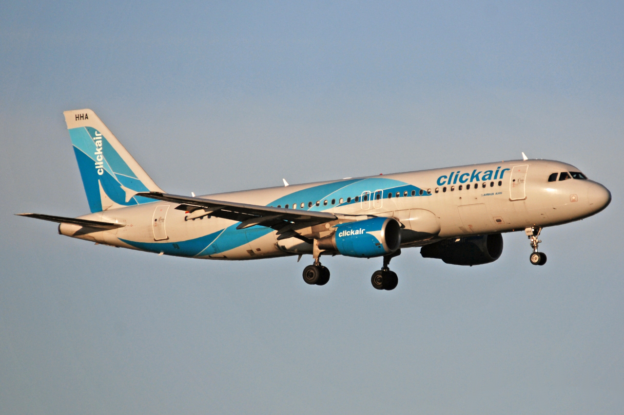 Airbus A320-214 Amsterdam schiphol [AMS / EHAM] 07-12-2008